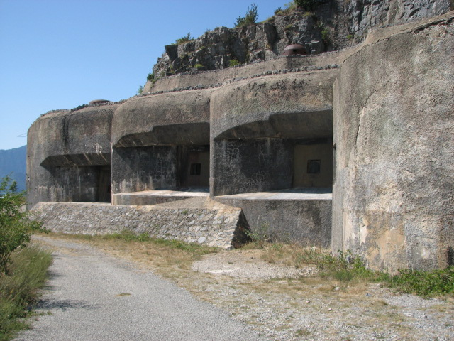 B1 block of the Maginot Line Work of Rimplas (Alpes-Maritimes)